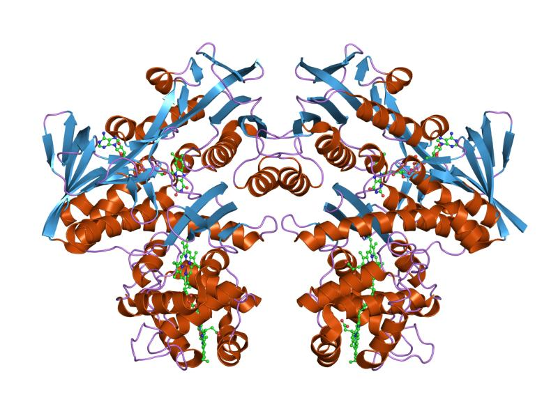 Cartoon representation of the molecular structure of protein registered with 1fcd code.